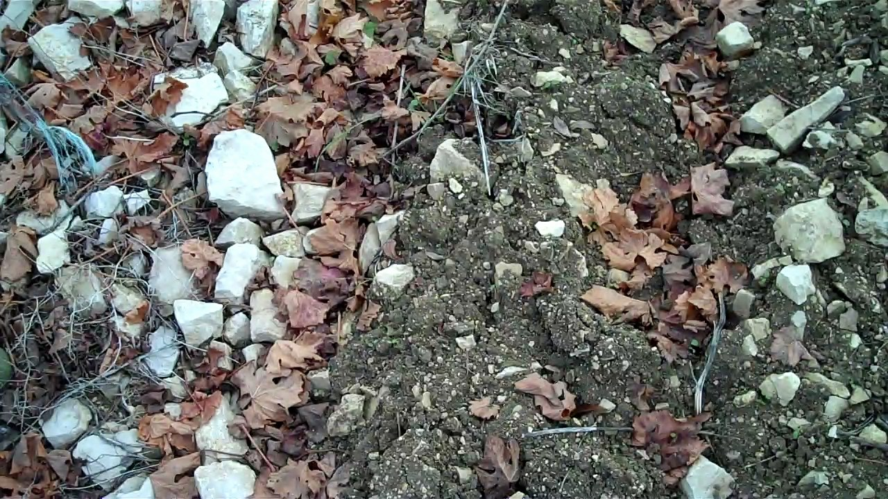 An example of the rocky soil that can be found in parts of the French wine region of Cabardes in the Languedoc region.